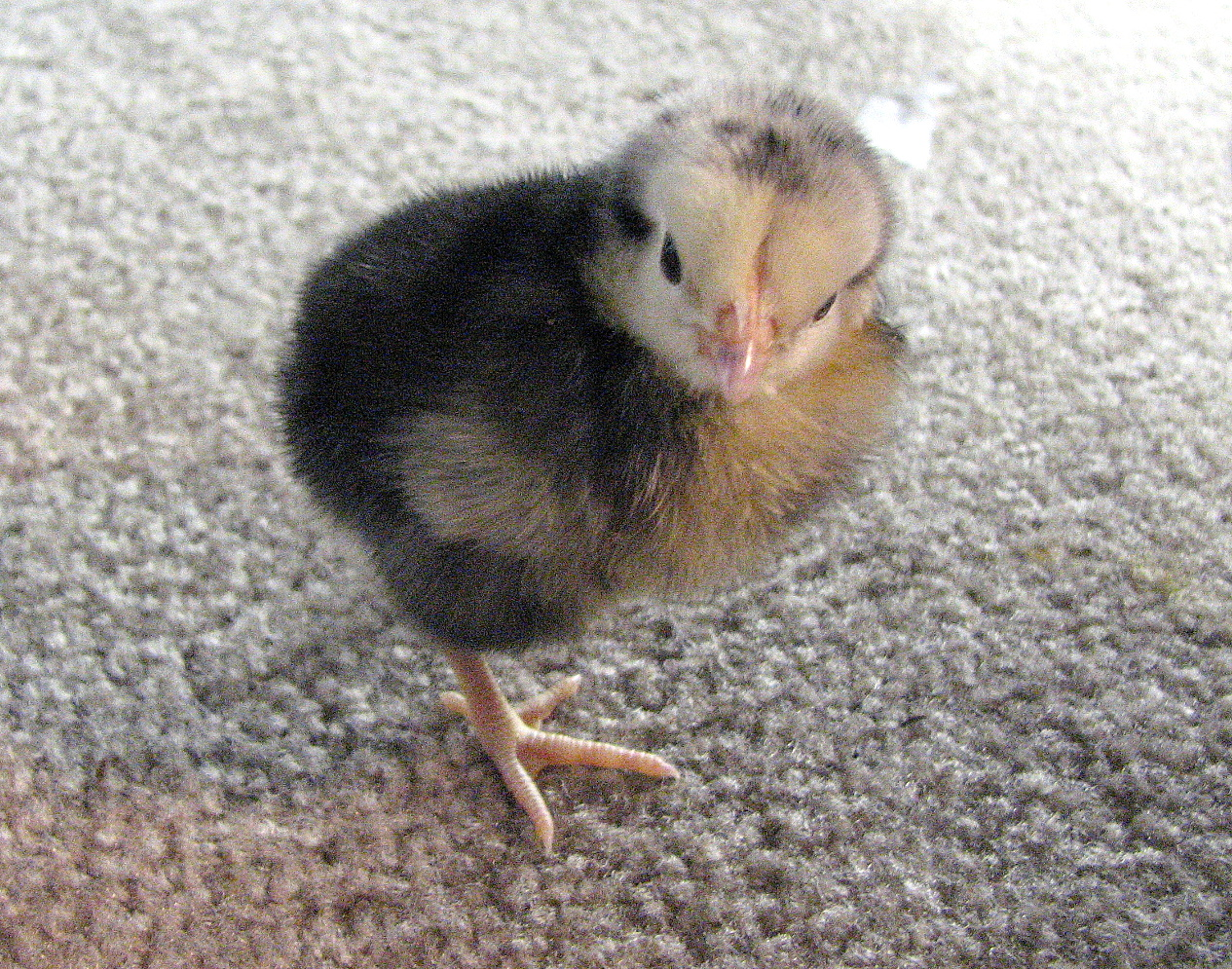 A 3 day old silver Lakenvelder chick.